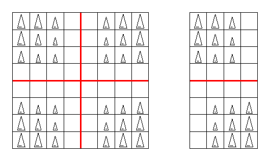 Martian Chess starting positions. Image created by Tualha on December 14, 2003. Public domain, copyright disclaimed.